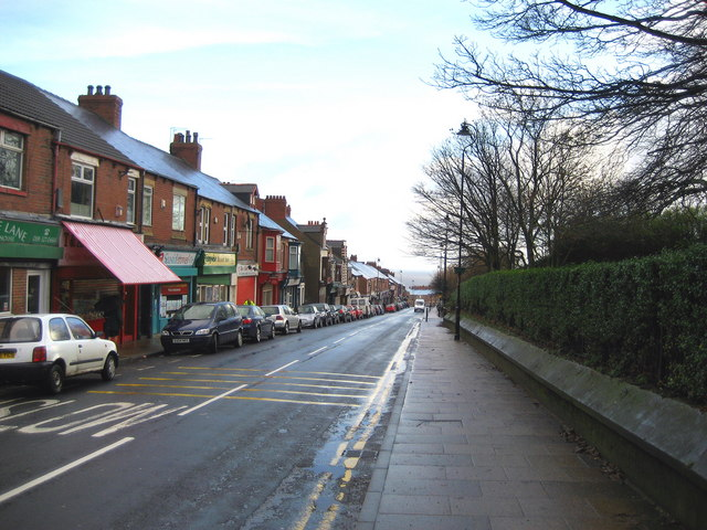 Main Shopping Area, Easington Colliery This is the B1283, Seaside Lane that runs through the heart of the community of Easington Colliery - at this point the main shopping district